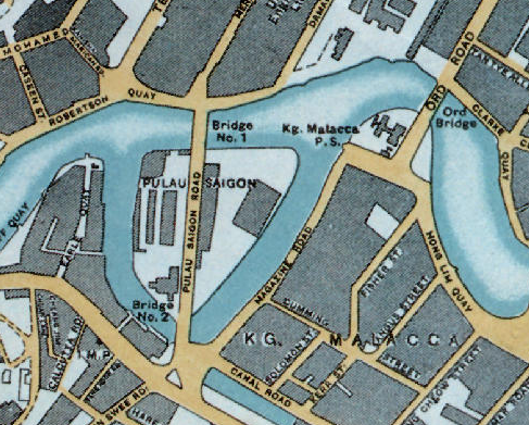 Pulau Saigon, Island of Singapore River, Singapore